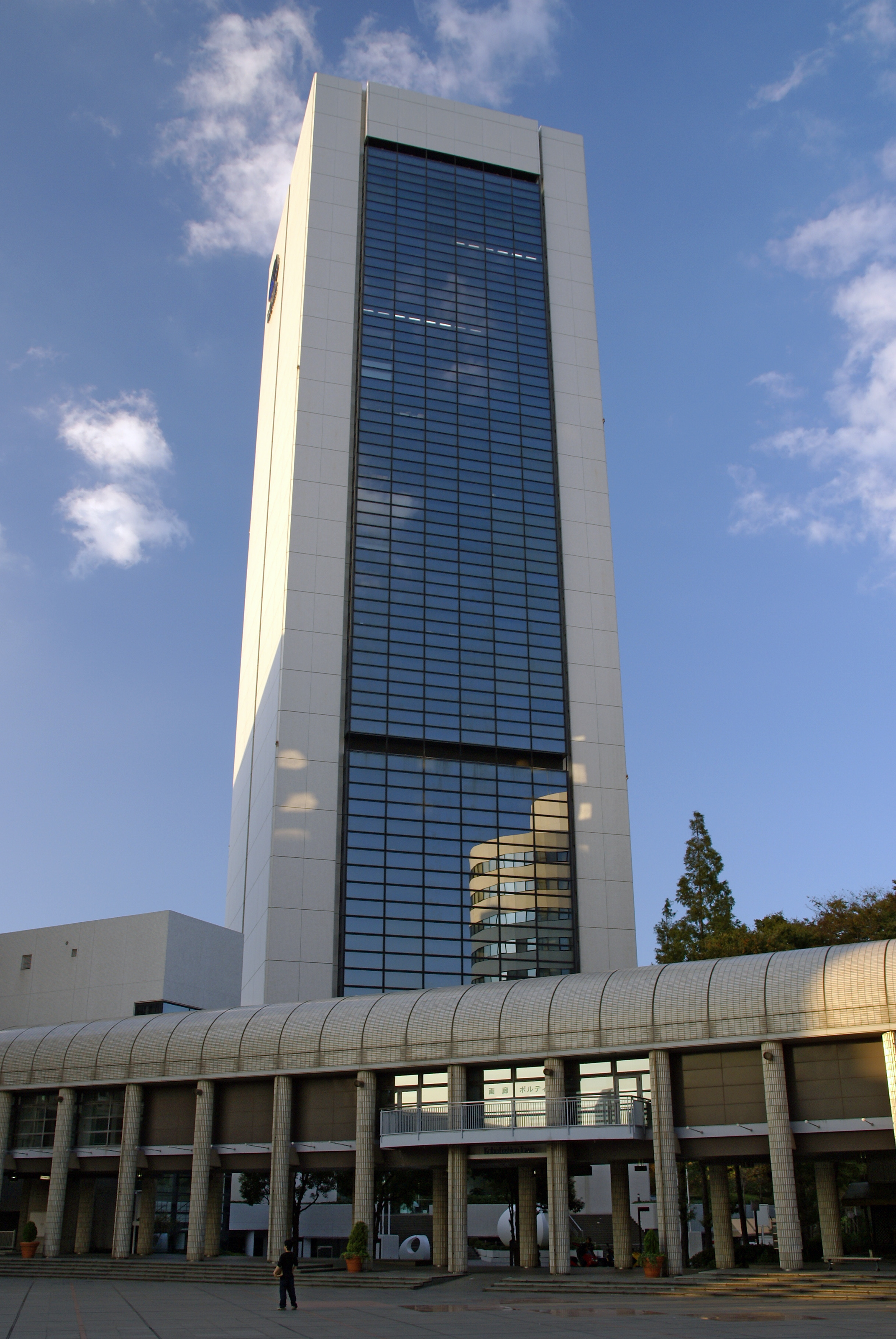 World Co., Ltd. headquarters building in Kobe, Hyogo prefecture, Japan